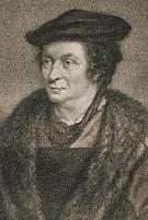 Image of Aert van der Goes (1475 - 1545), Land Advocate of Holland from 1525 till 1544